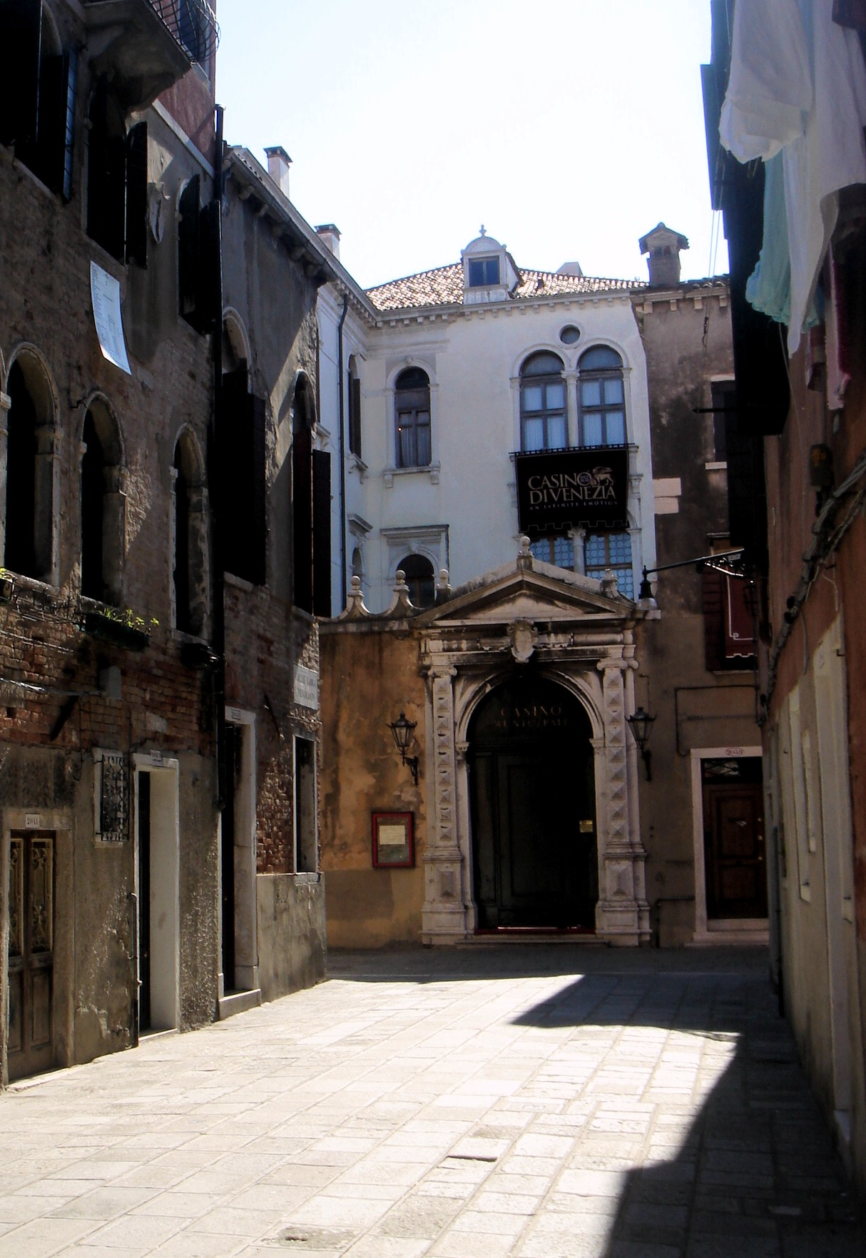 Venezia: Ca' Vendramin Calergi, facciata e ingresso posteriori (presso cui è affissa la lapide in memoria di Wagner).